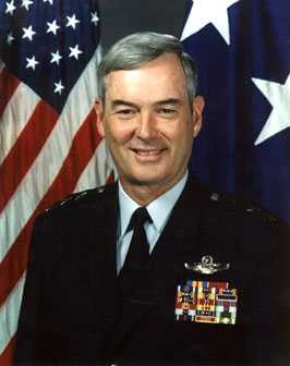 Lieutenant General Nicholas B. Kehoe, United States Air Force, retired